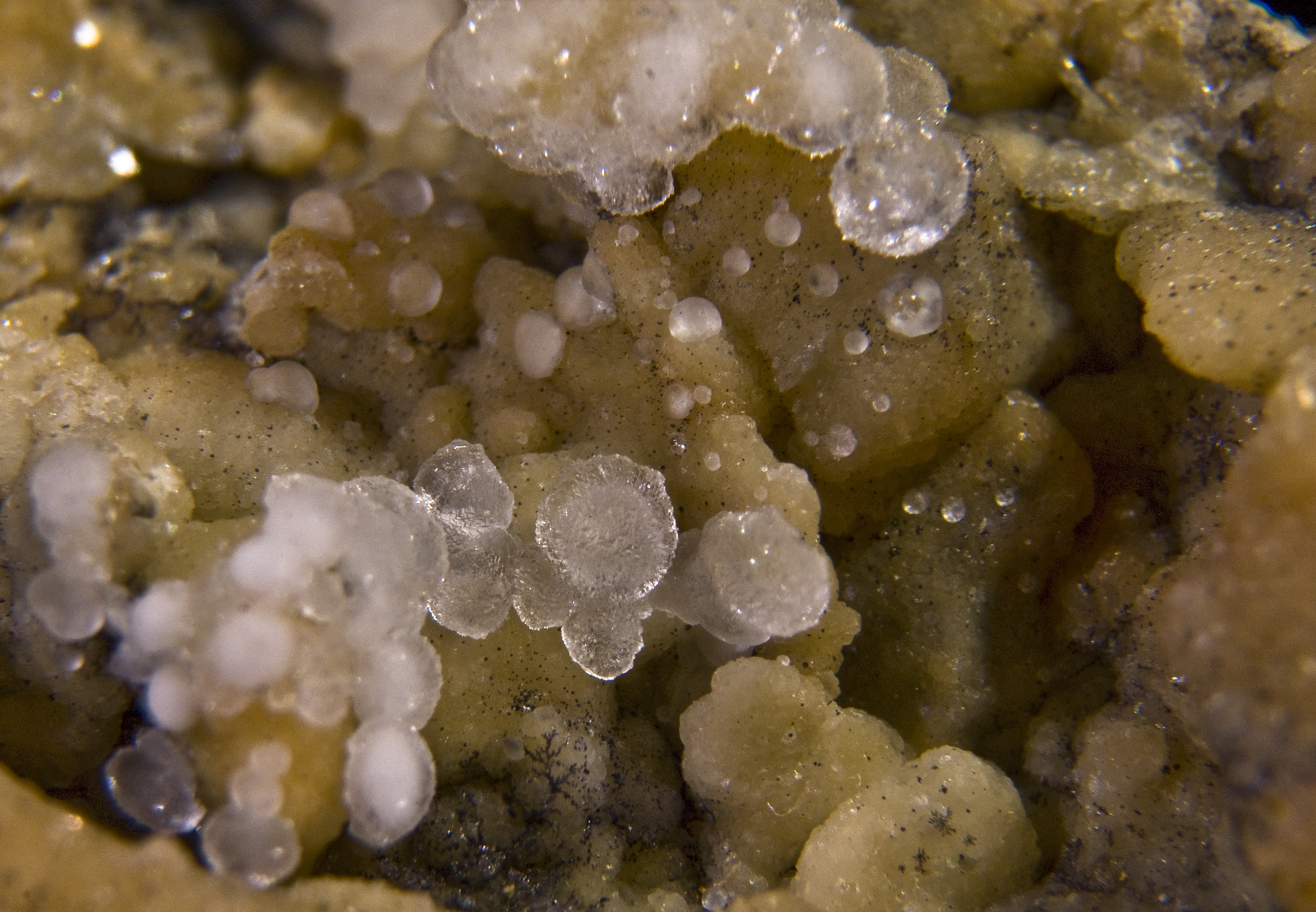 Melanophlogite Locality : Fortullino, Rosignano Marittimo, Livorno Province, Tuscany, Italy Size : View 1.5x1cm